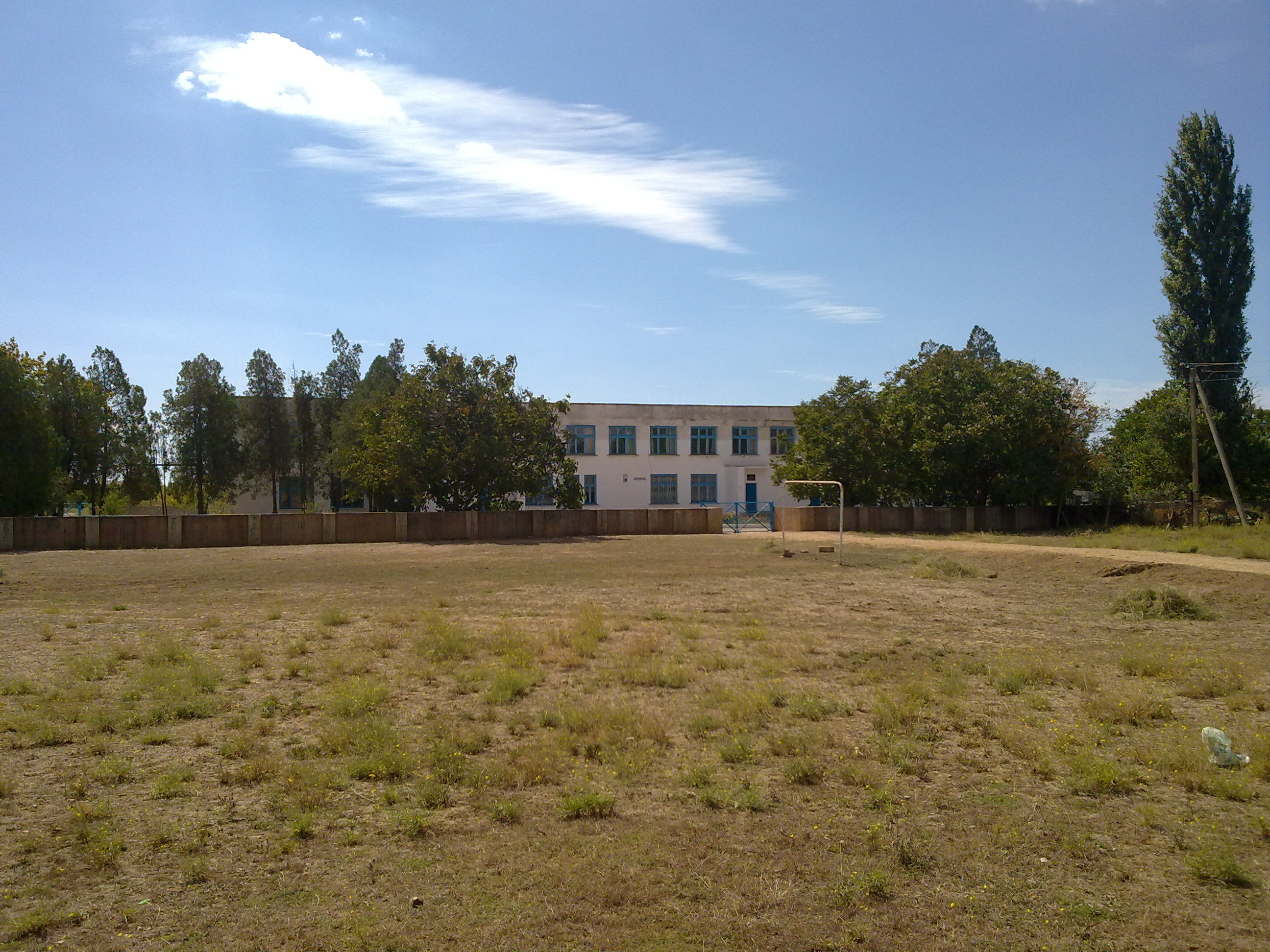 Village Shelkovichnoe, Saki district, Crimea. Kindergarten.